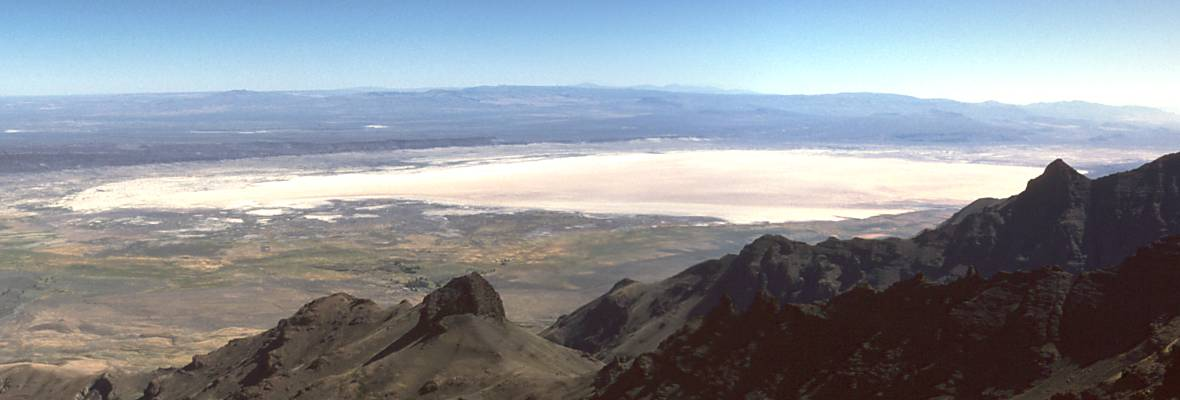 The Alvord Desert playa, looking southeast from Steens Mountain.